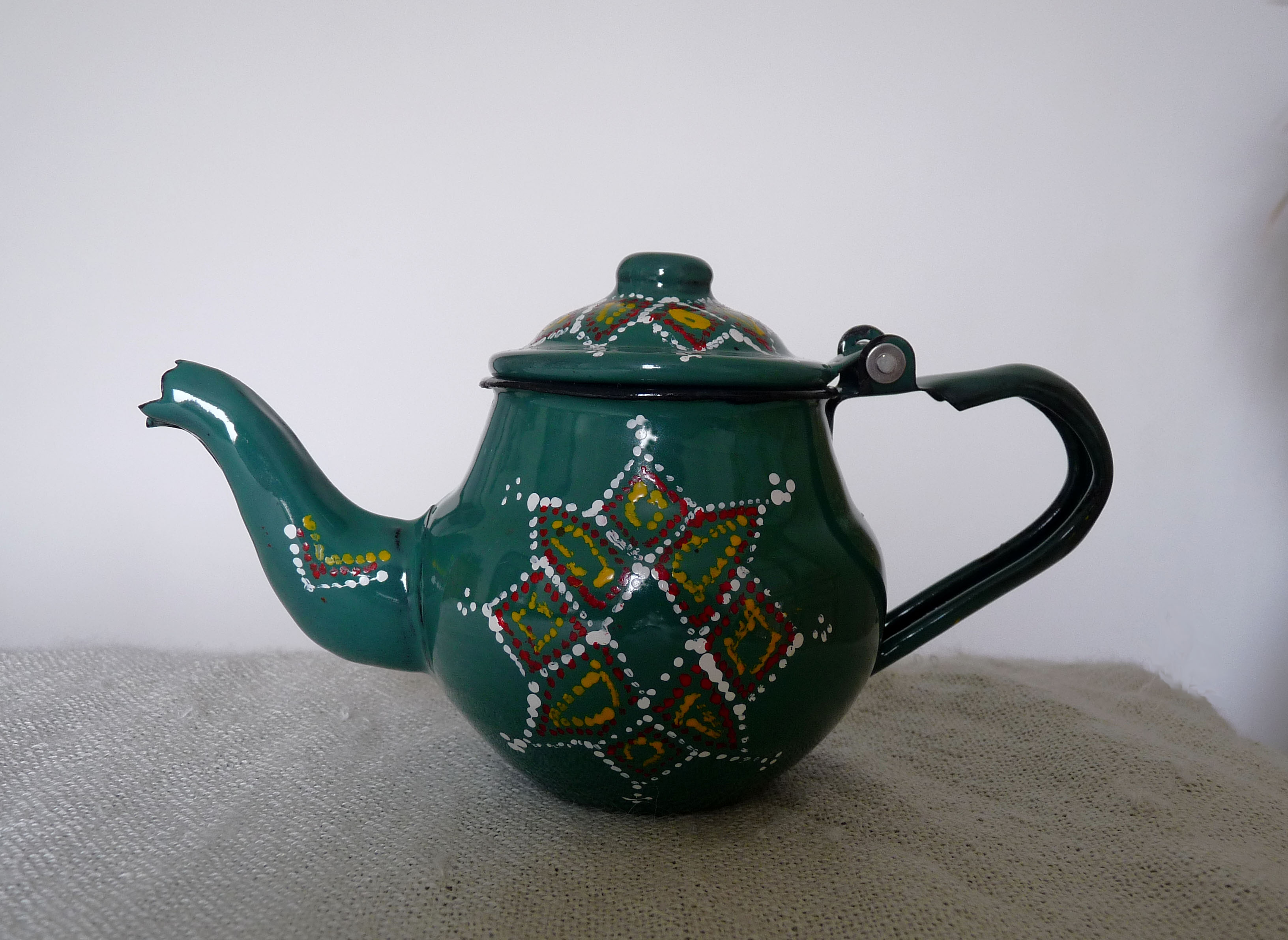 Mauritanian teapot